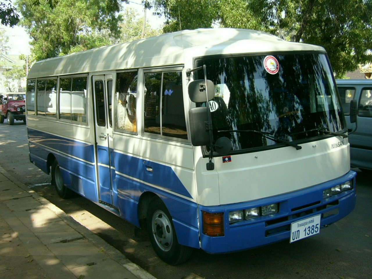 Nissan Civilian bus (seen in Vientiane, Laos), Note SE Asian style vehicle mirrors up front.